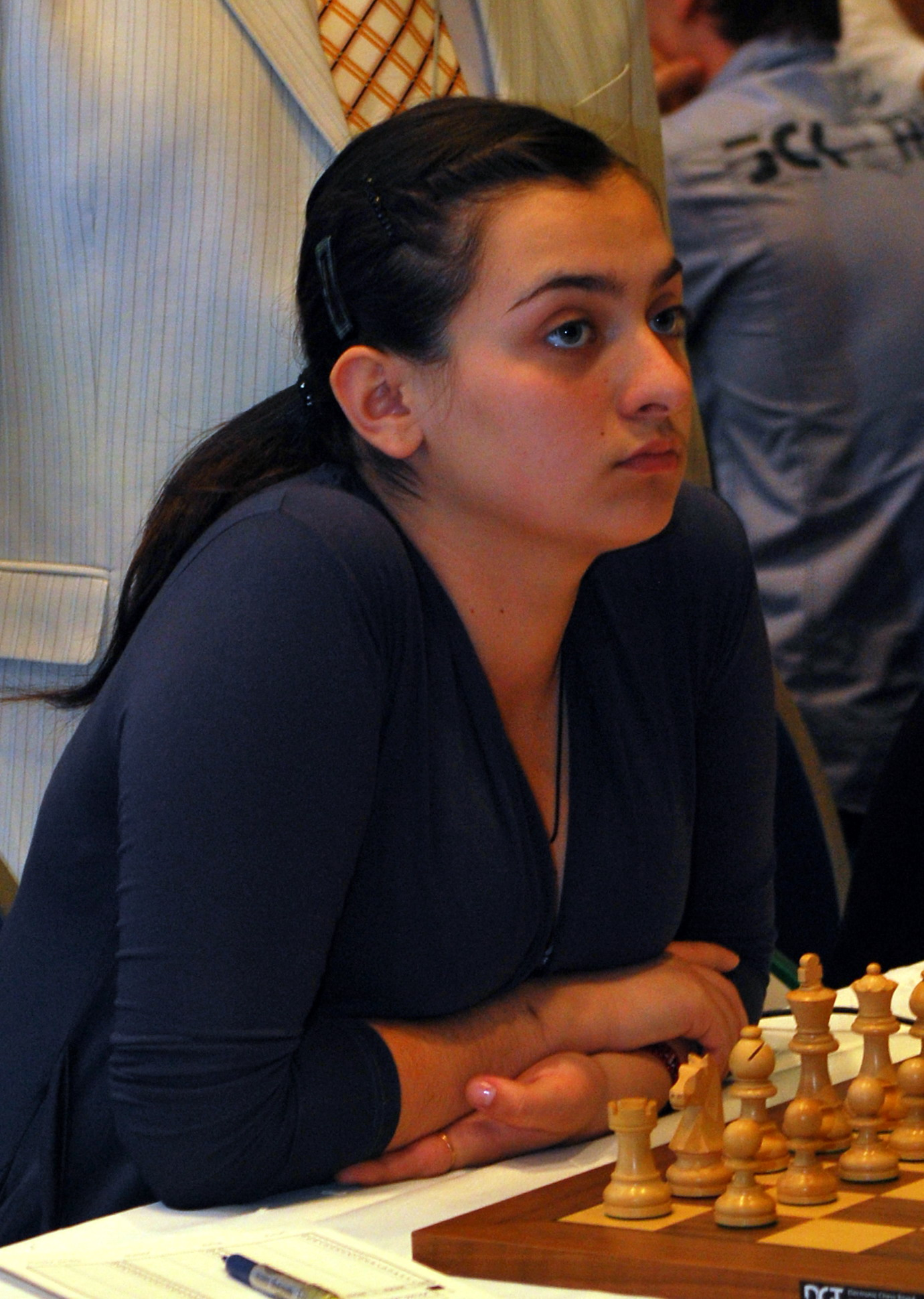 Meri Arabidze, World Youth Chess Championship, Porto Carras 2010.